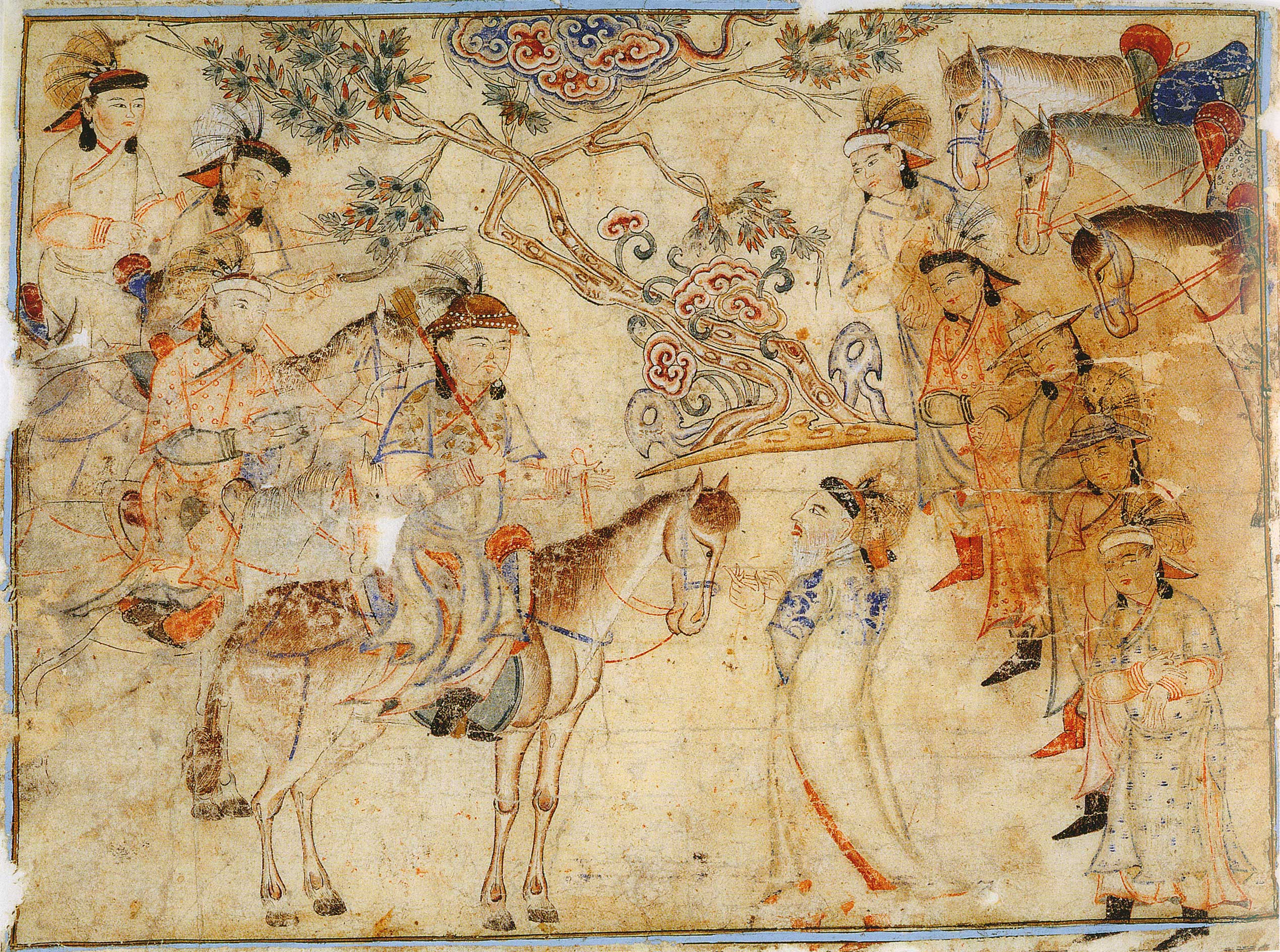 Negotiations. Illustration of Rashid-ad-Din's Gami' at-tawarih. Tabriz (?), 1st quarter of 14th century. Water colours and gold on paper. Original size: 19 cm x 25 cm. Staatsbibliothek Berlin, Orientabteilung, Diez A fol. 71, p. 54.